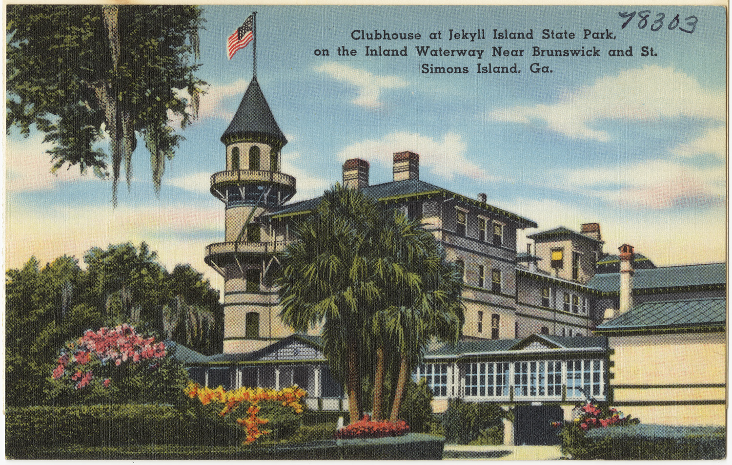 File name: 06_10_014178 Title: Clubhouse at Jekyll Island State Park, on the Inland Waterway near Brunswick and St. Simons Island, Ga. Date issued: 1930 - 1945 (approximate) Physical description: 1 print (postcard) : linen texture, color ; 3 1/2 x 5 1/2 in. Genre: Postcards Subject: Organizations' facilities Notes: Title from item. Collection: The Tichnor Brothers Collection Location: Boston Public Library, Print Department Rights: No known restrictions